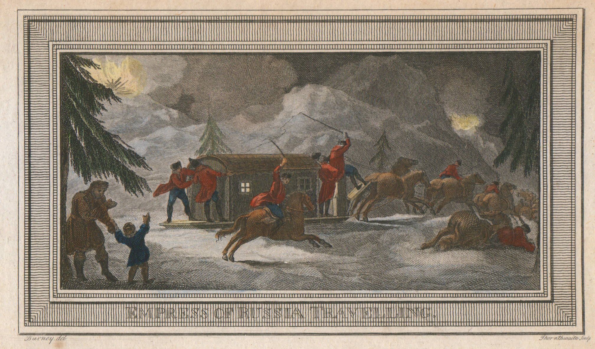 Russian empress Catherine II is travelling to Krimea in 1787